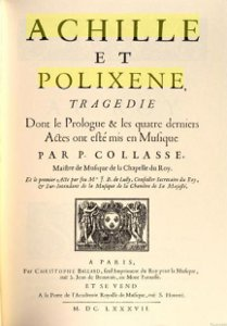 Achille et Polixène, tragédie en musique by J.-B. Lully and P. Colasse, title page of the libretto, published 1687